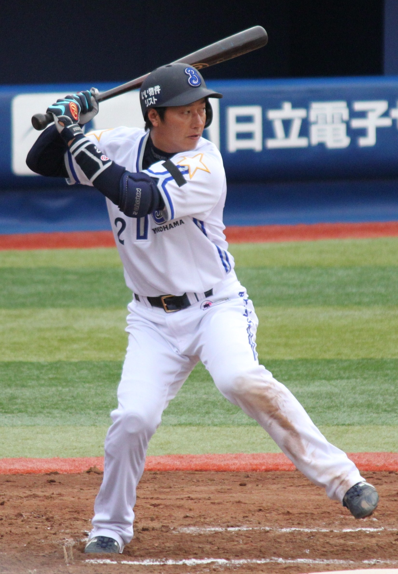 Naoto Watanabe, infielder of the Yokohama BayStars, at Yokohama Stadium.